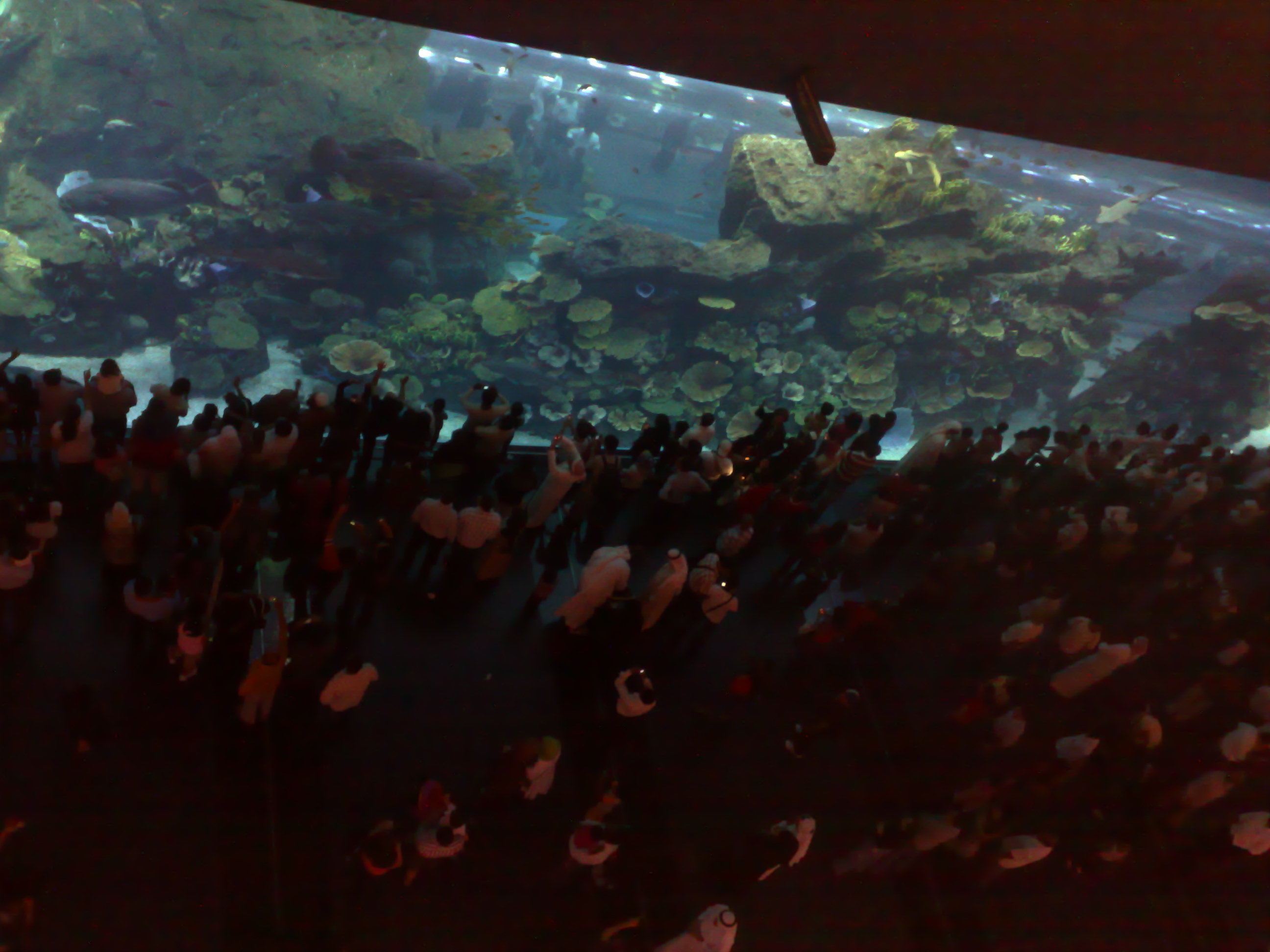 The Dubai Mall